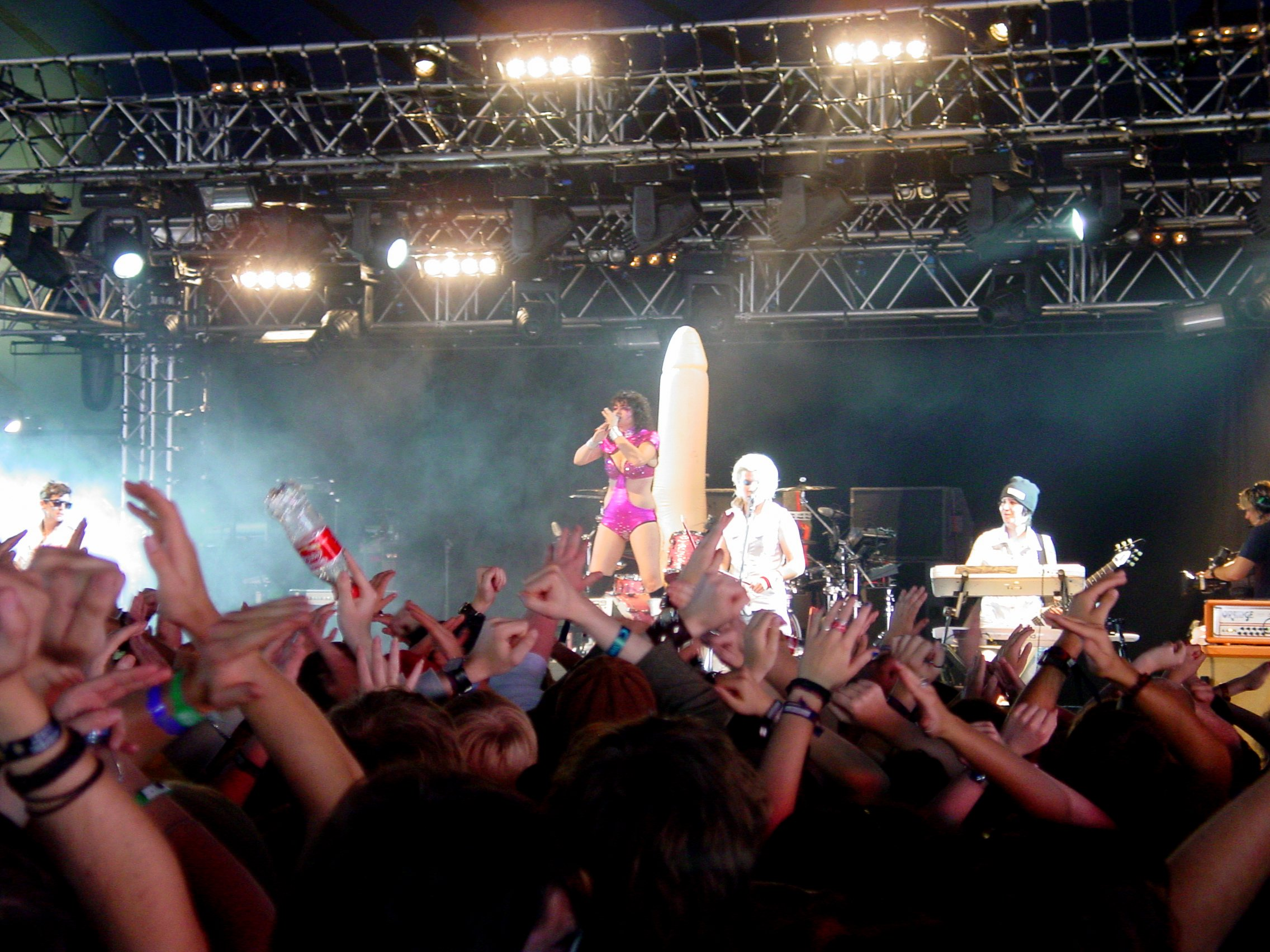 Peaches on the Carling Leeds Festival 2006